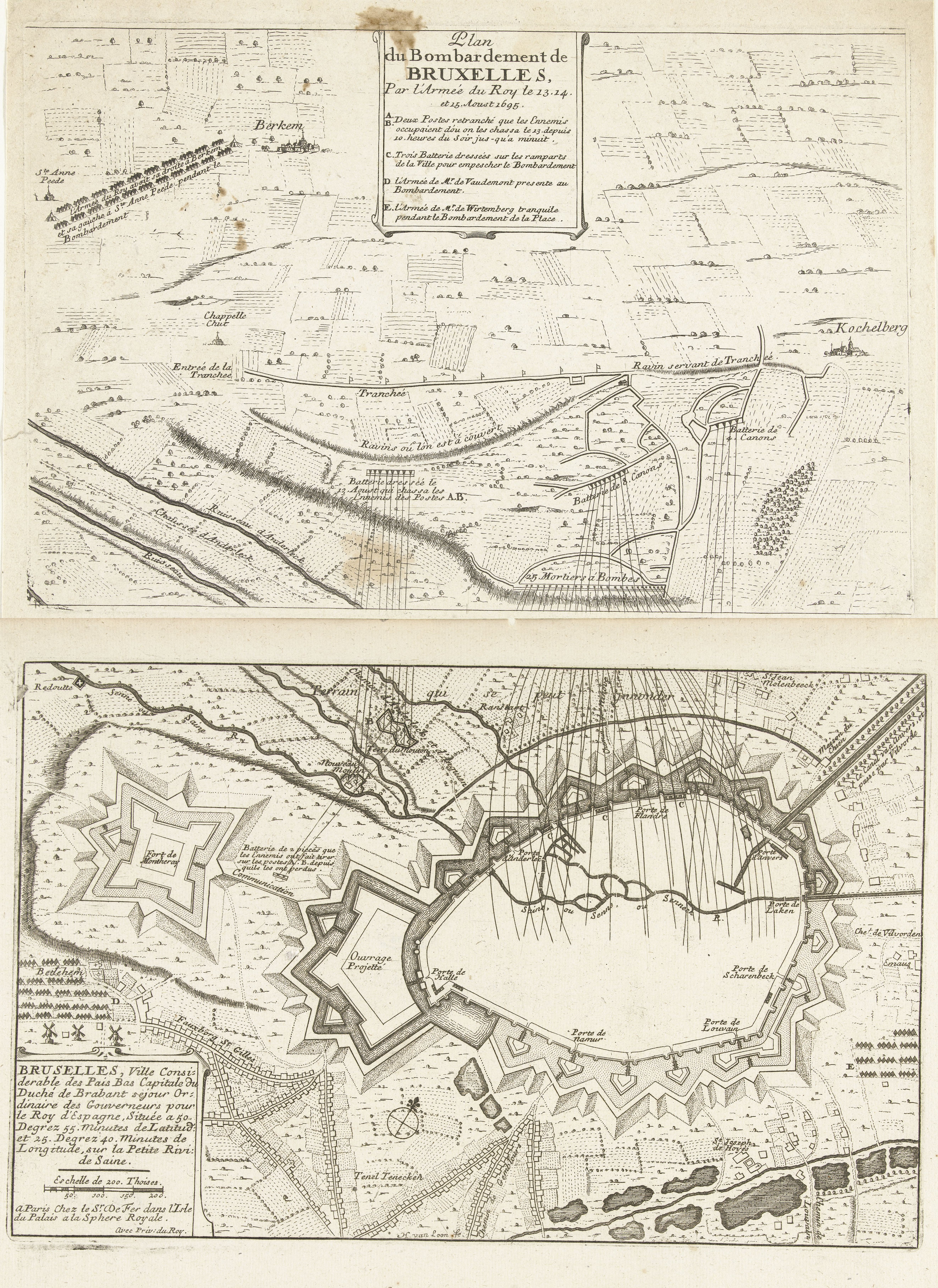 Map of the bombing of Brussels by French troops (1695). Drawn by Nicolas de Fer, printed by Harmanus van Loon.